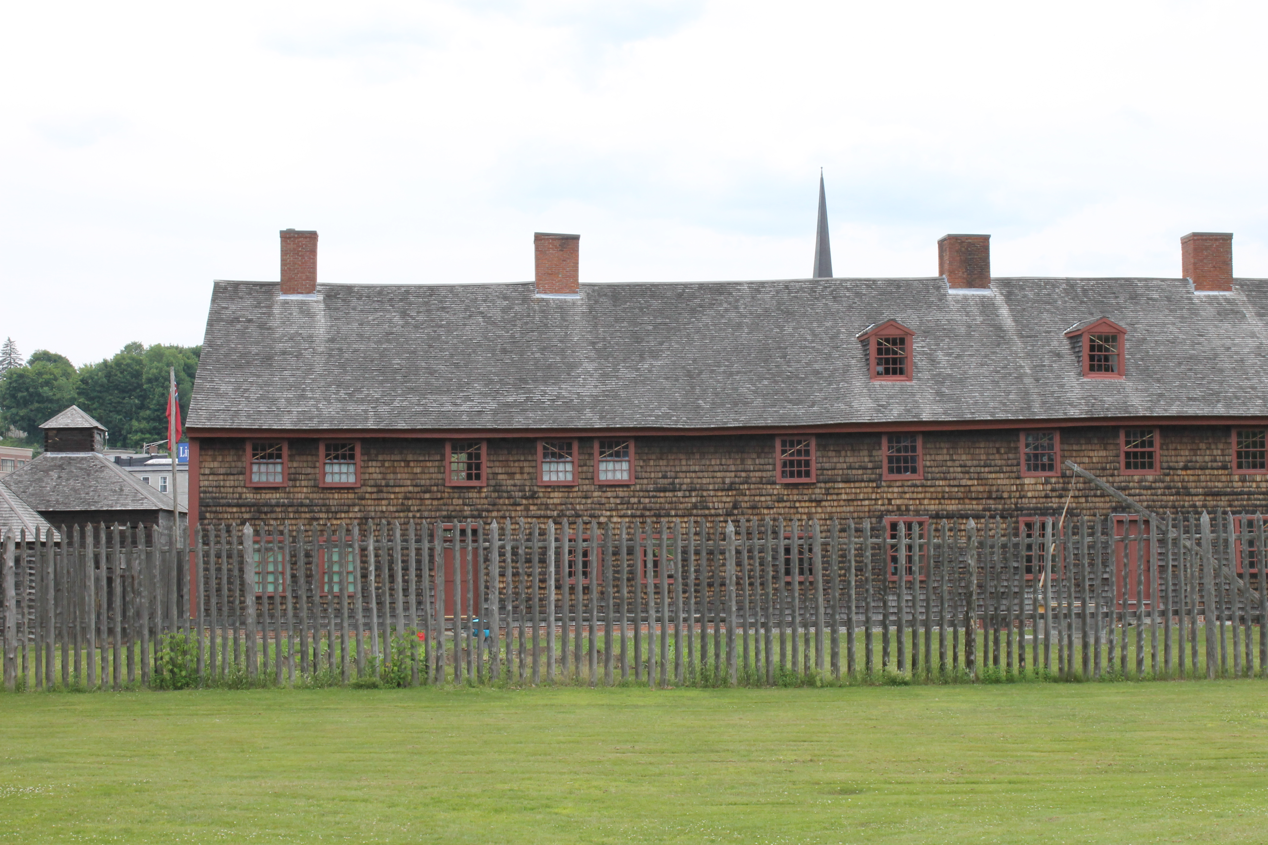 I took photo with Canon camera of Fort Western in Augusta, ME.